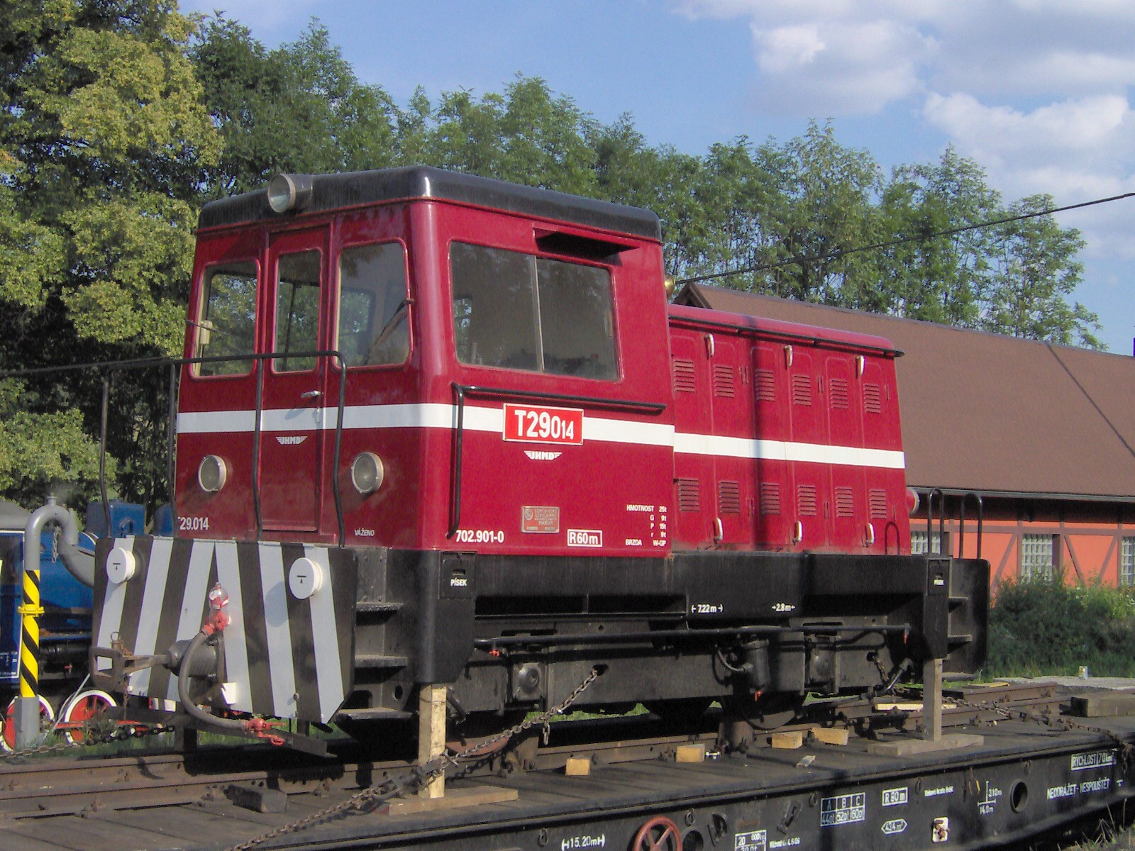 Narrow gauge diesel locomotive 702.901 (T 29.014), Třemešná, Czech Republic